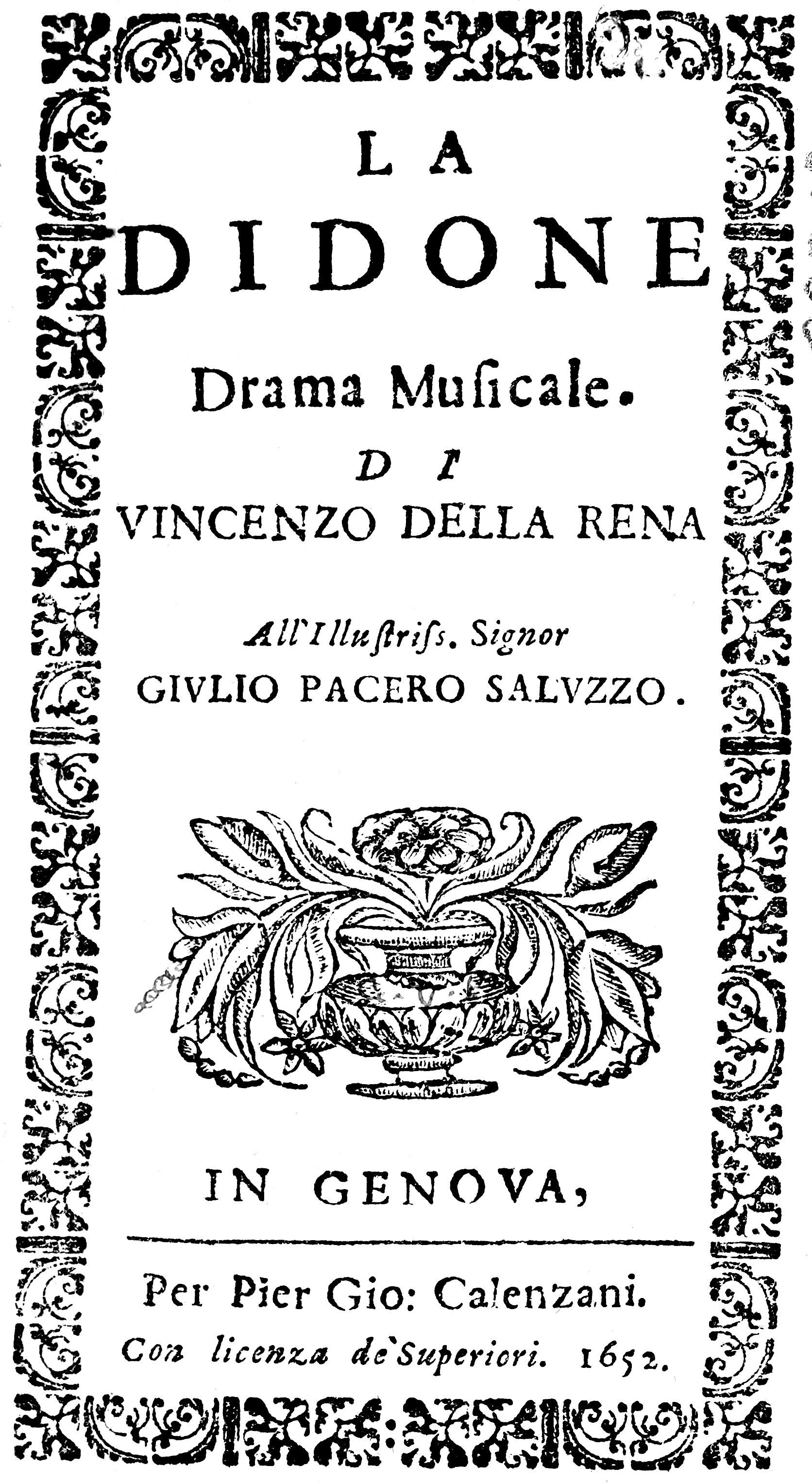 Cavalli - Didone - title page of the libretto, Genova 1652